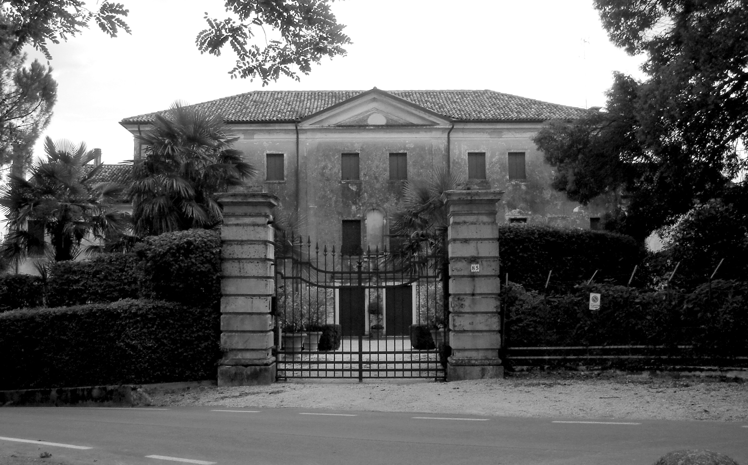 Collalbrigo (Conegliano): Villa Montalban Ghetti